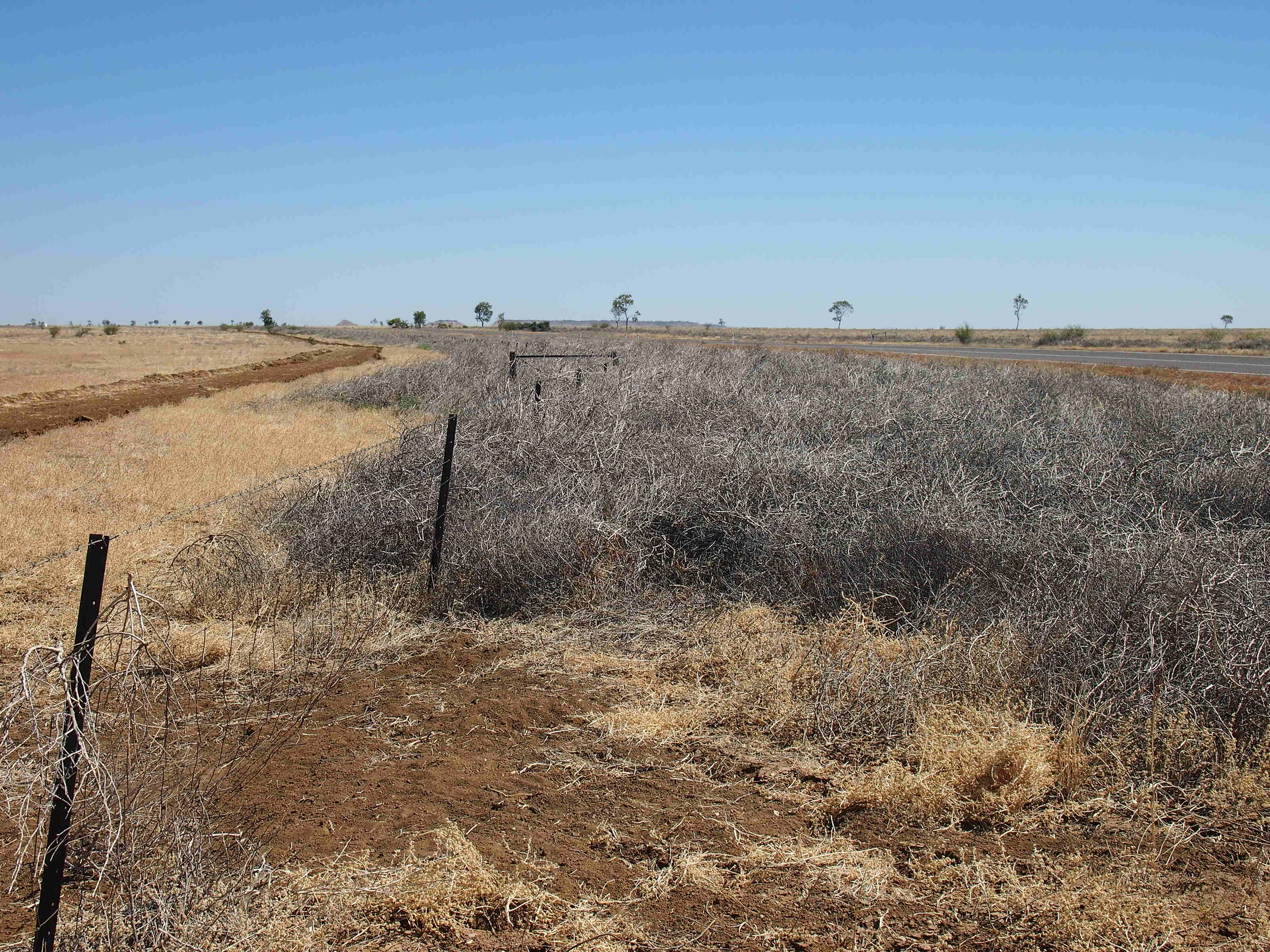 Tumbleweeds (Salsola kali) on fence, near Winton, Outback Australia